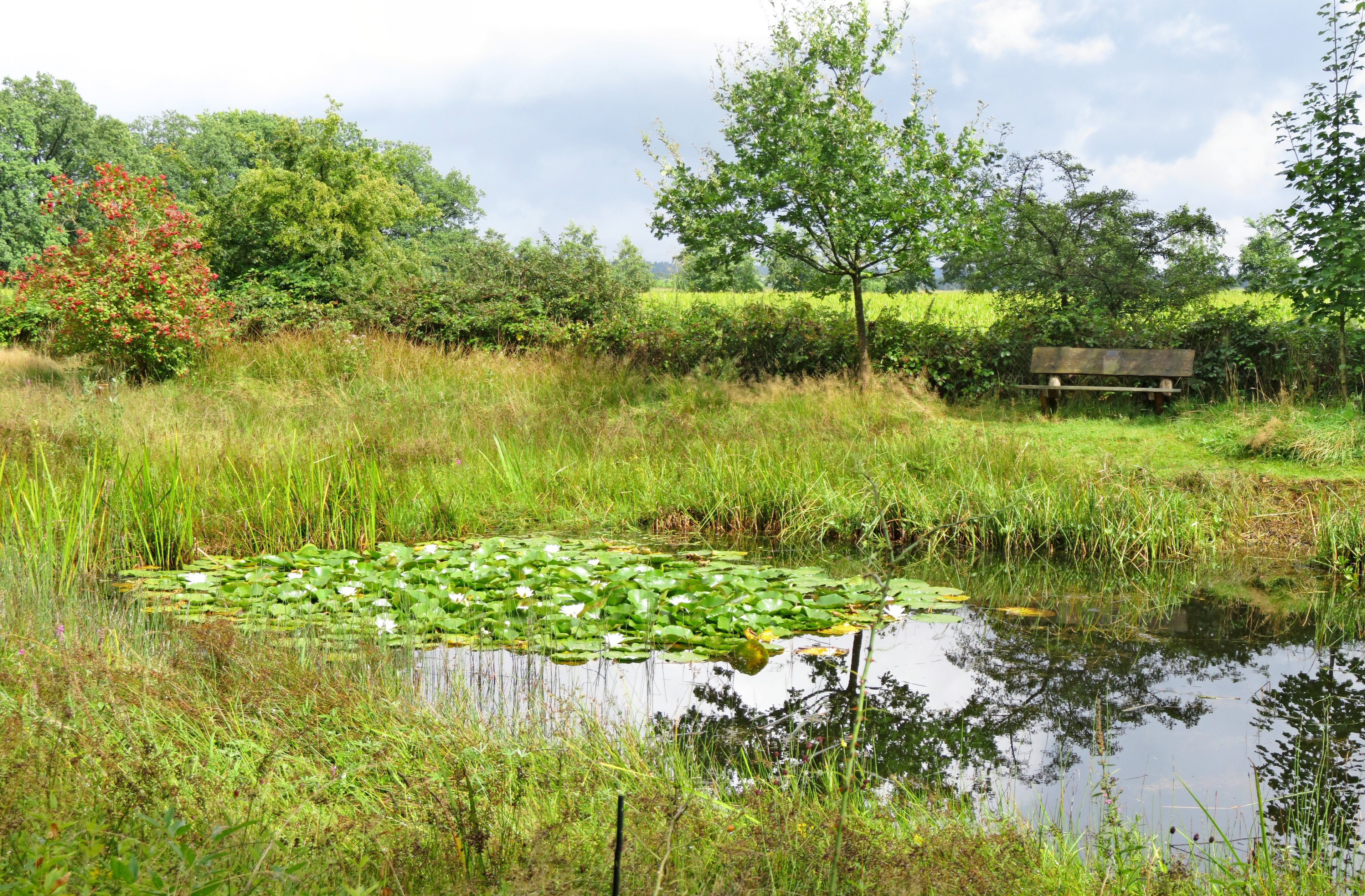 The pond in the Londotuin (NL)